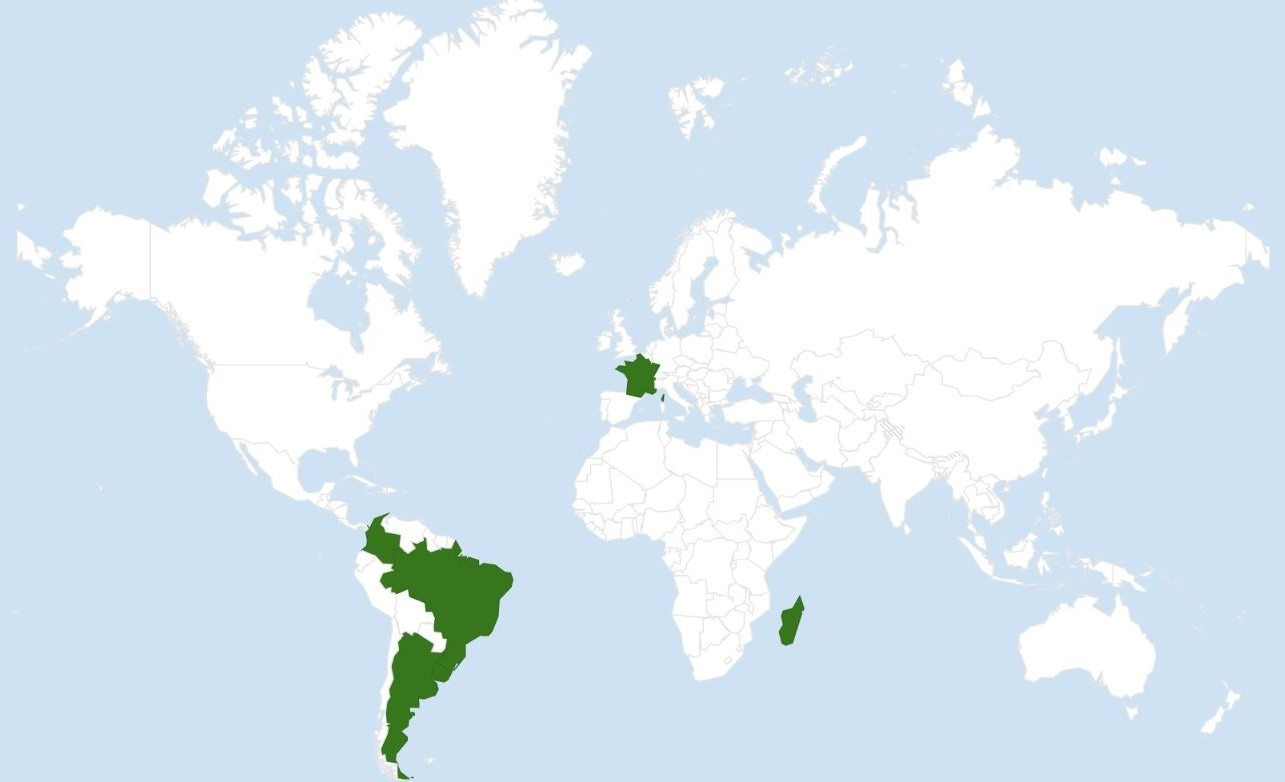 Casino group worldwide presence